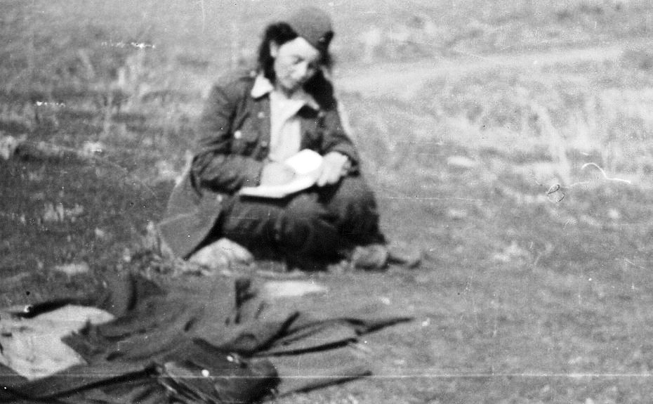 Urania Pirovska, Commissioner and activist of Women's Antifascist Front. Woman fighter of Democratic Army of Greece. 1949 This media file is produced by Wikipedian in Residence in Category:Wikipedian in Residence at DARM in 2016.